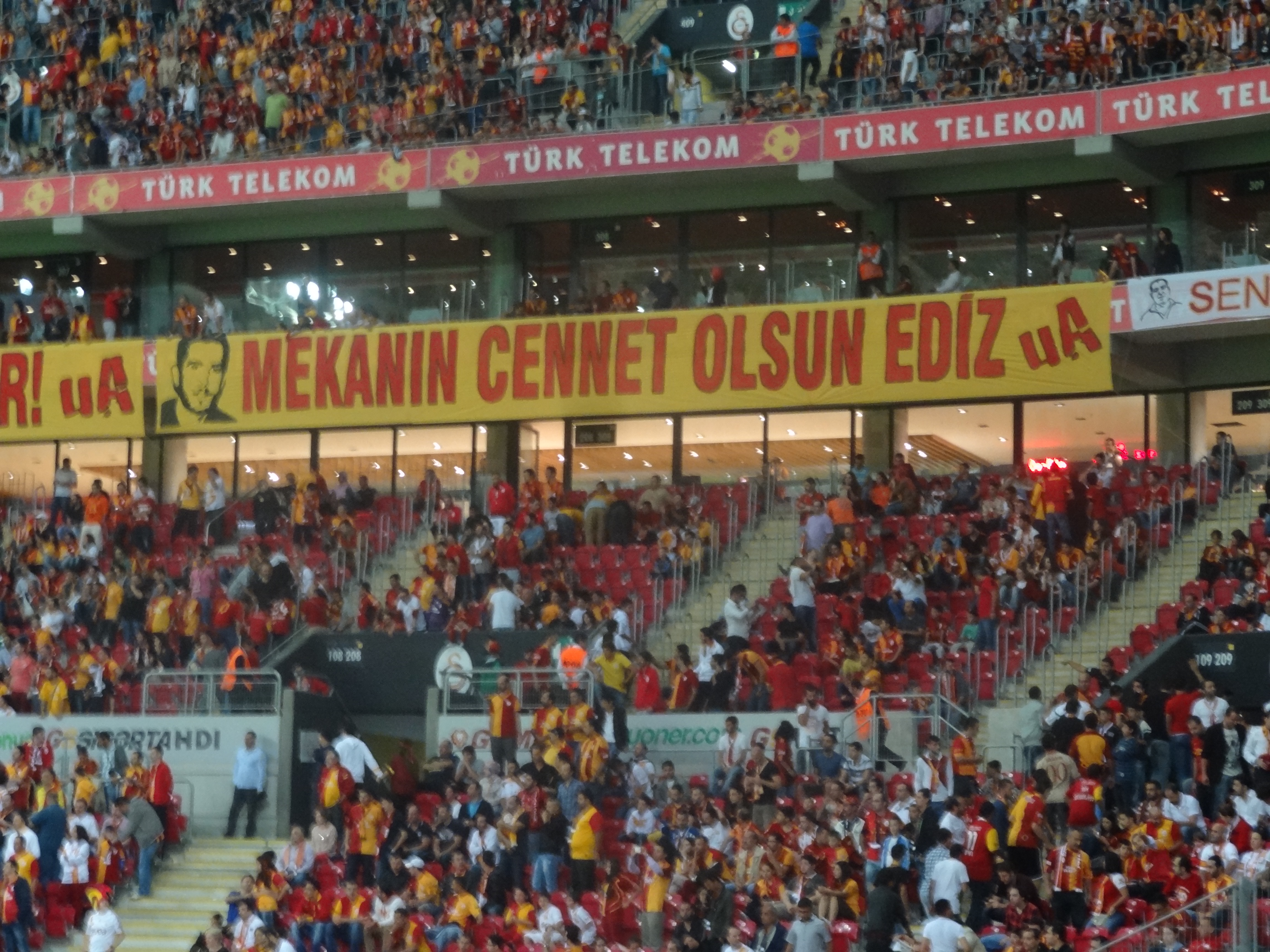 Ediz pankart